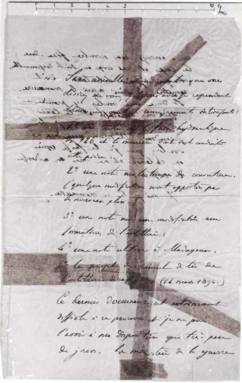 Bordereau, photo in 1994.